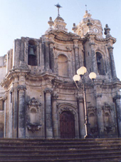 Church of Sant'Antonio Abate